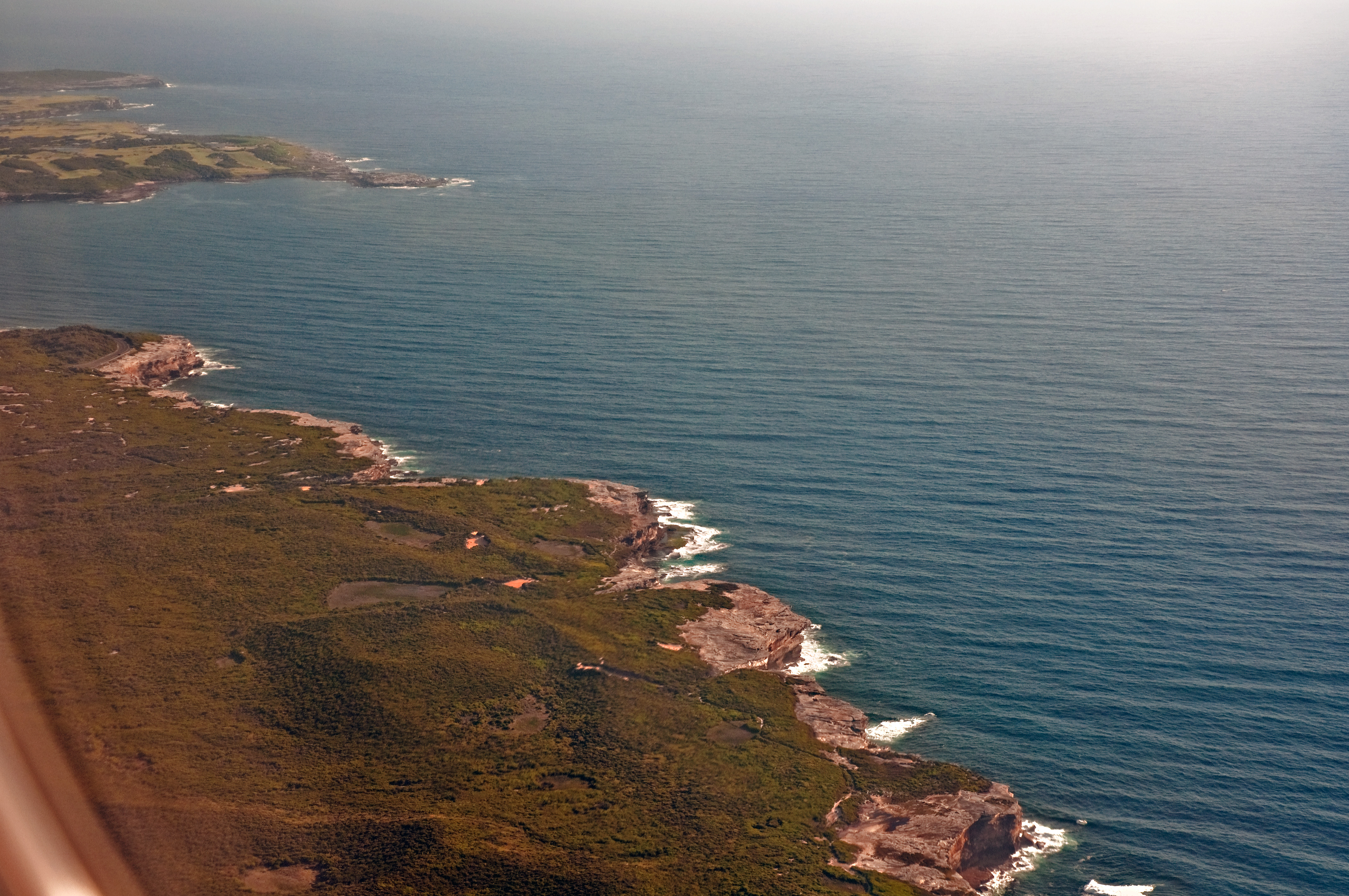 Botany Bay entrance, NSW, 26th. Nov. 2010